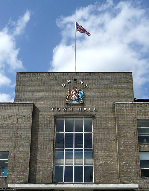 Brent Town Hall (detail), Wembley